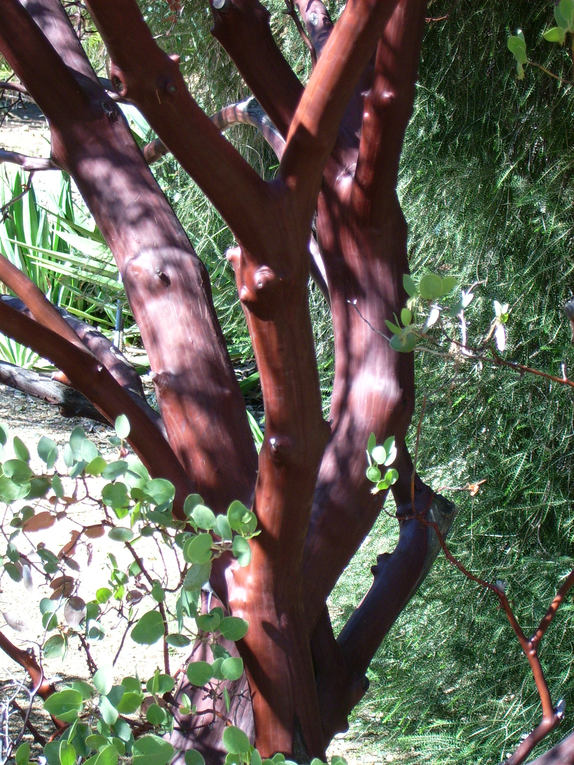 Arctostaphylos manzanita — Manzanita, Whiteleaf manzanita. At the Regional Parks Botanic Garden in Tilden Park, Berkeley Hills, California.